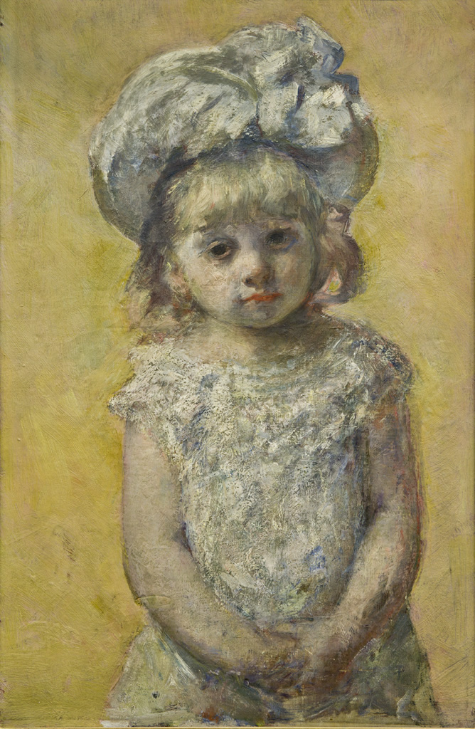 Painting by Mary Cassatt, Portrait de fillette, 1879, Musée des Beaux-Arts de Bordeaux.